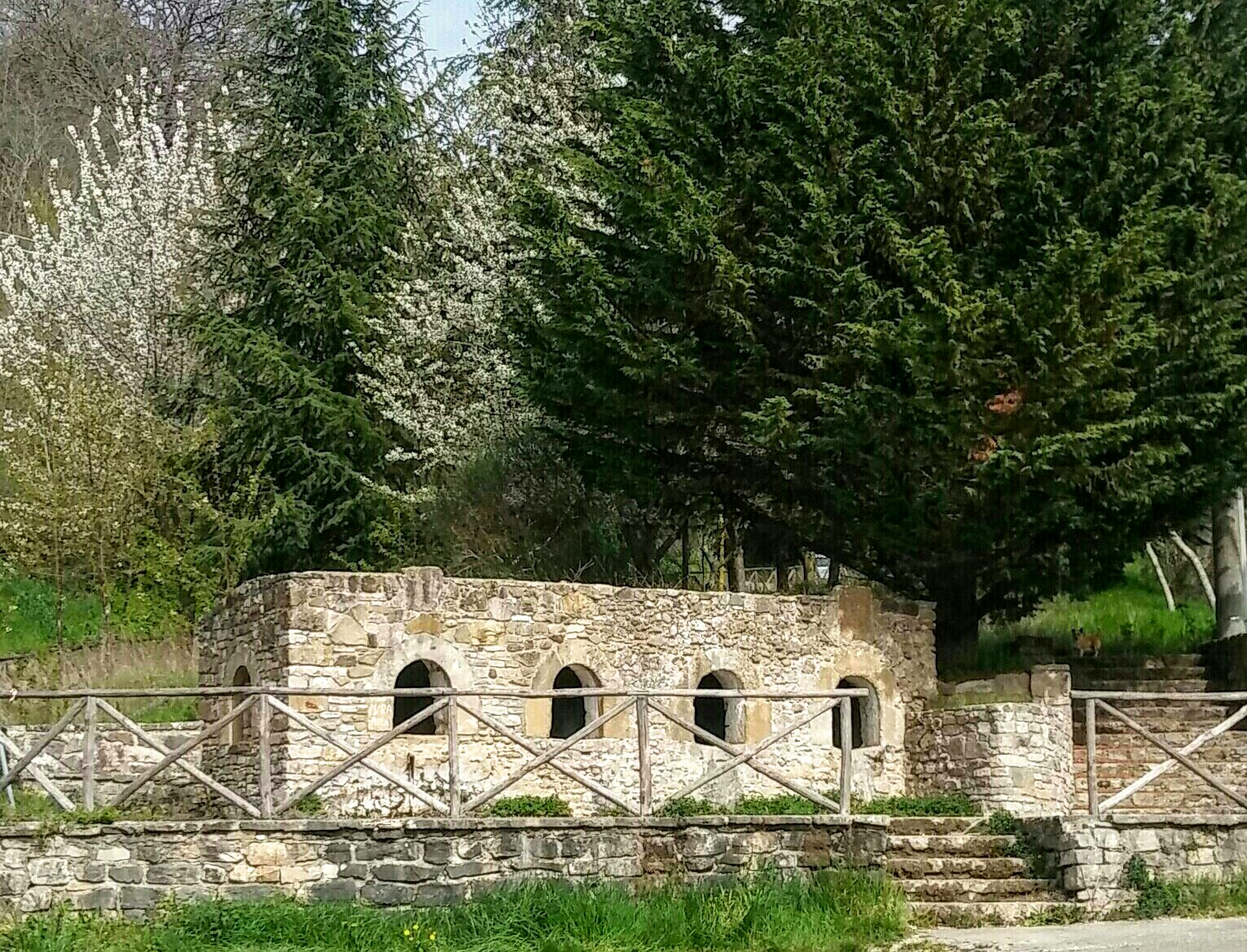 "Brecceto" Fountain in Ariano Irpino, Italy